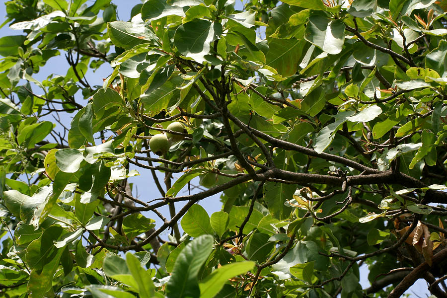 Diospyros chloroxylon - Slow Match Tree, Wild Guava, Ceylon Oak, Patana Oak • Hindi: कुम्भी Kumbhi • Marathi: कुम्भा Kumbha • Tamil: Aima, Karekku, Puta-tanni-maram • Malayalam: Alam, Paer, Peelam, Pela • Telugu: araya, budatadadimma, budatanevadi, buddaburija • Kannada: alagavvele, daddal • Bengali: Vakamba, Kumhi, Kumbhi • Oriya: Kumbh • Khasi: Ka Mahir, Soh Kundur • Assamese: Godhajam, কুম Kum, kumari, কুম্ভী kumbhi • Sanskrit: Bhadrendrani, गिरिकर्णिका Girikarnika, Kaidarya, कालिंदी Kalindi - in Narsapur, Medak district, Andhra Pradesh, India.